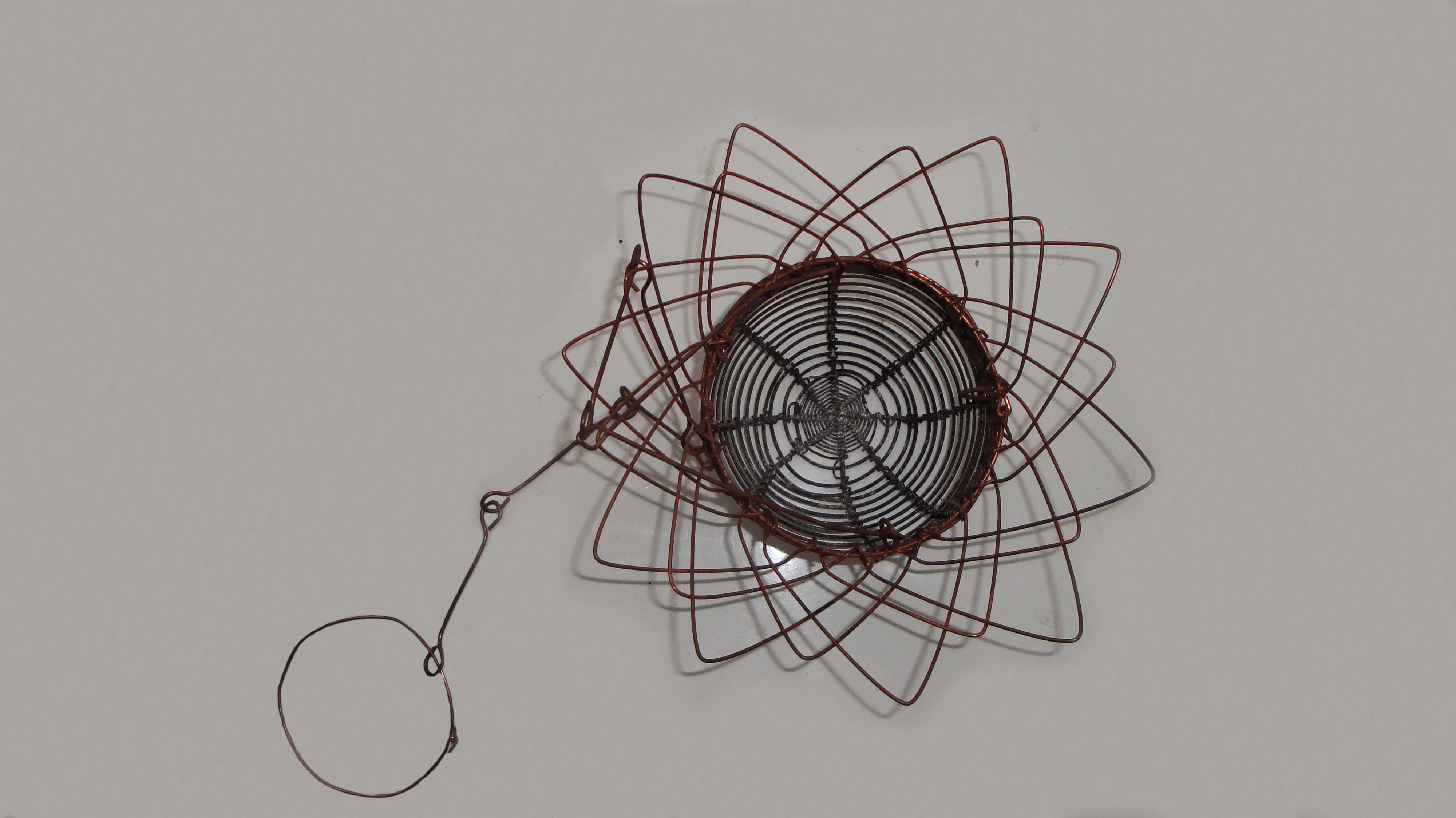 Some kinds of Hookah charcoal basket, made in Iran.